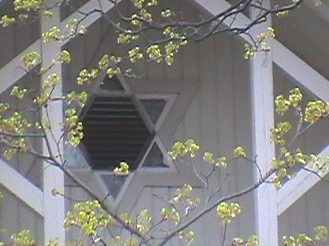 Star shaped window of Villa Kivi, Helsinki, Finland